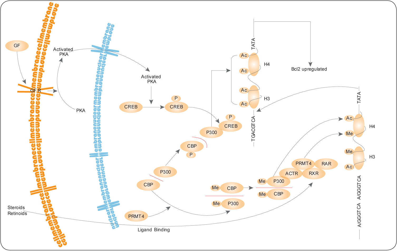 Essential SUMO pathway